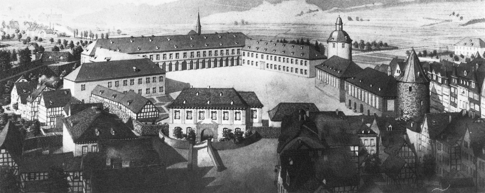 City of Siegen (Westphalia, Germany): view of the Lower Castle (Unteres Schloss) in 1720, viewn from west. Ink drawing by Wilhelm Scheiner, 1922.